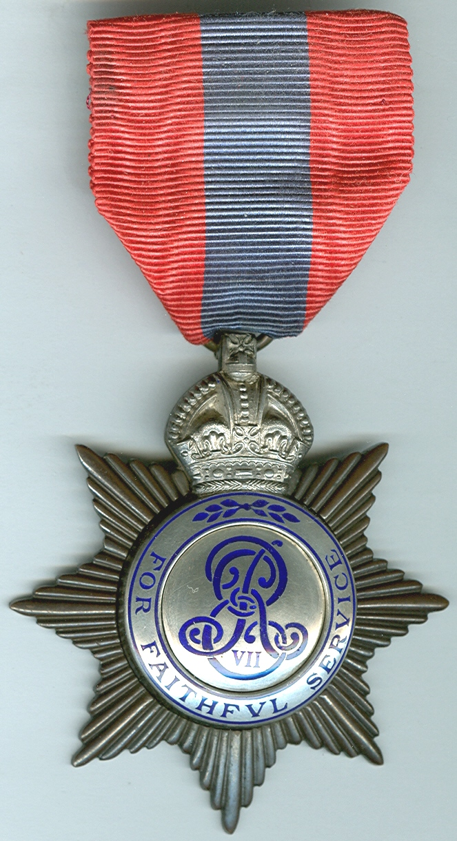 Edward 7th ISM